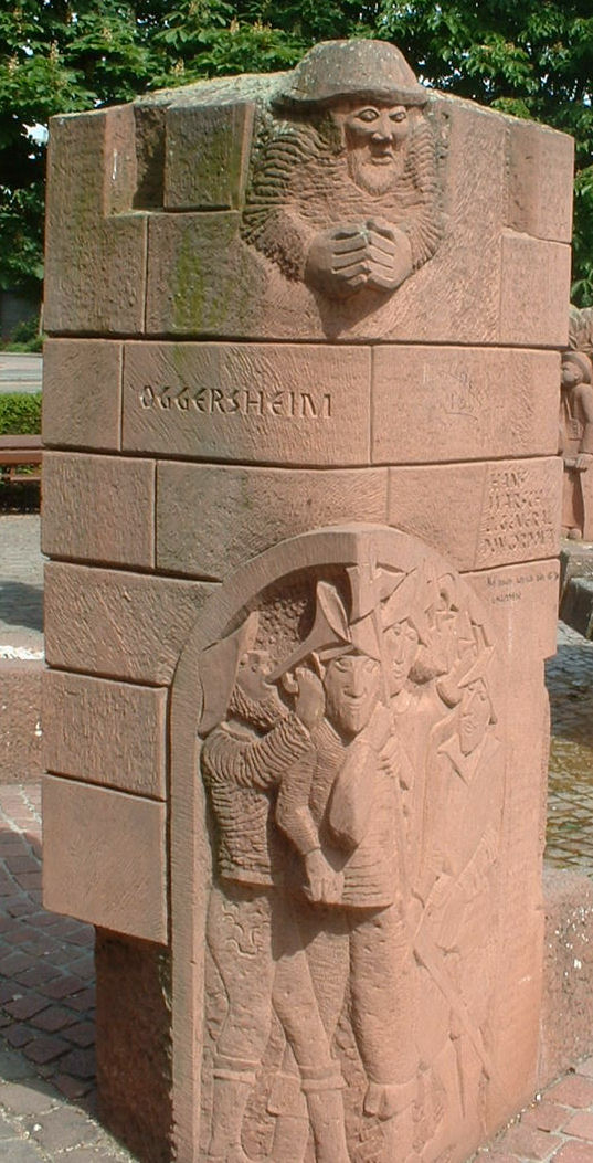 view of Ludwigshafen, Germany